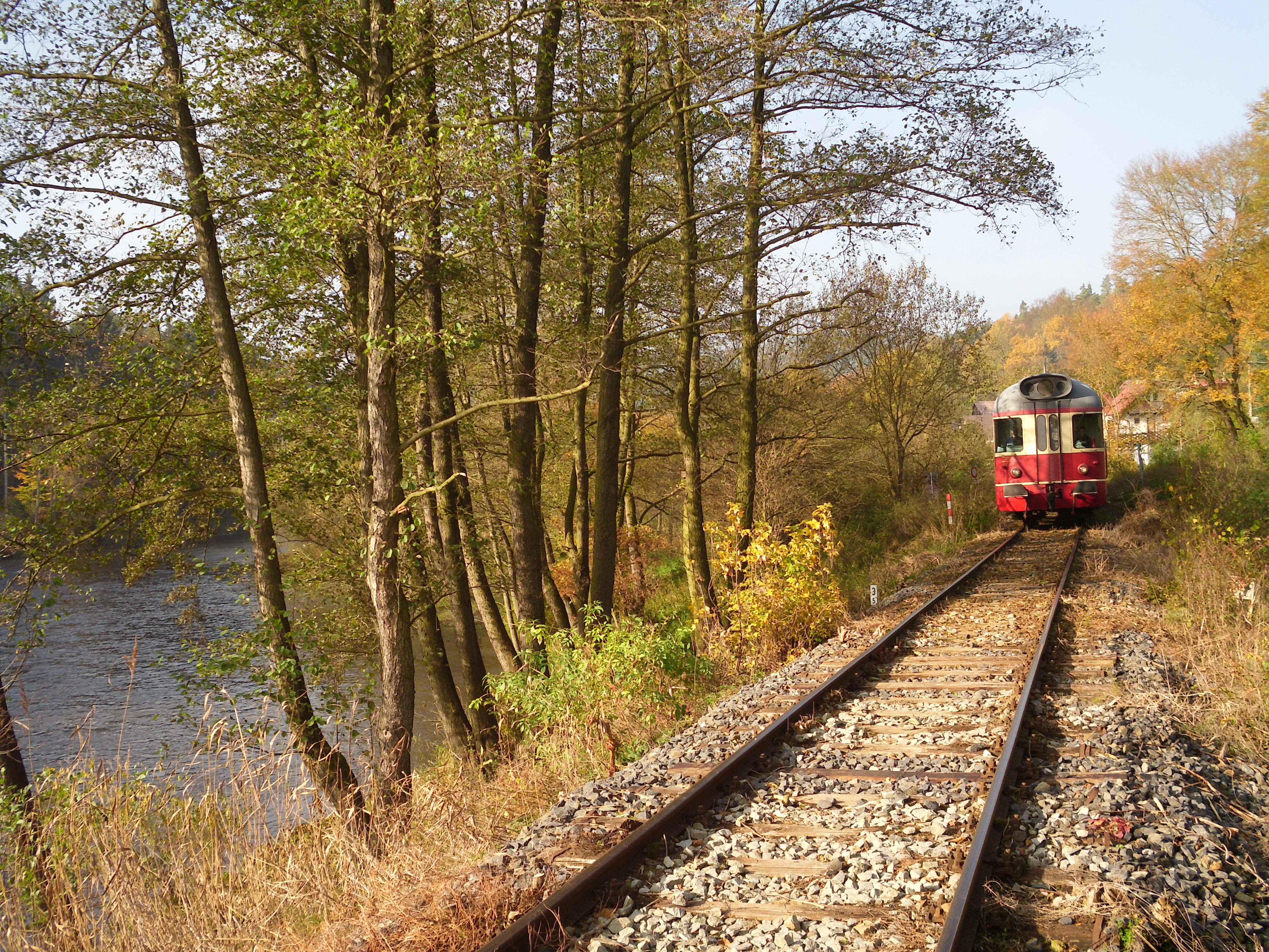 Railcar M286.1008 of KŽC Doprava outside Velichov on a business track from Vojkovice n. O. to Kyselka.